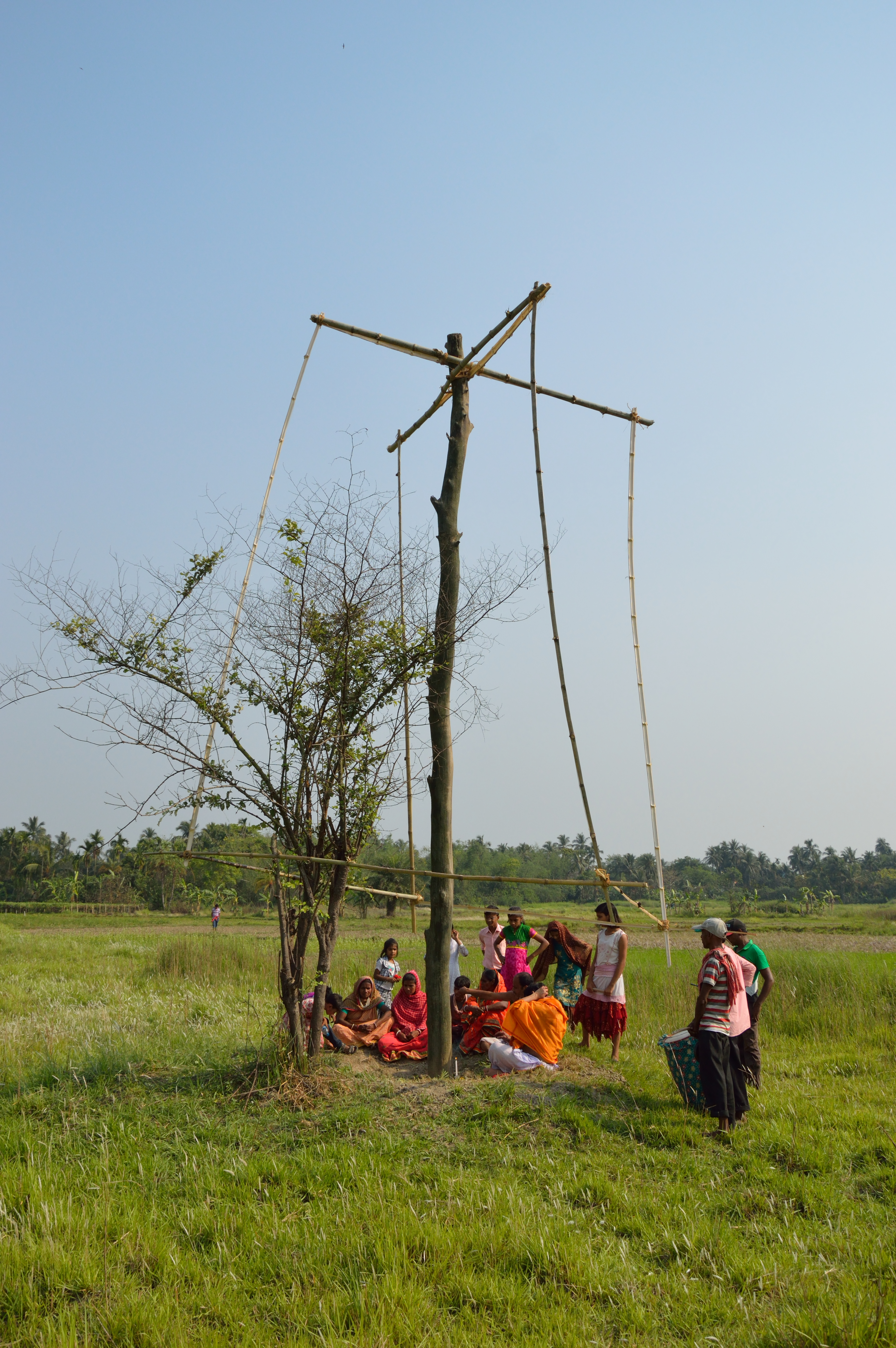 Photographed during the 'Charak' and 'Gajan' festival at the village Narna of Howrah, West Bengal. A village fair also took place at the high summer. Charak and Gajan puja are traditional Bengali folk festivals of the Hindus celebrated before the Bengaly new year day in the Bengal. Charak puja dedicated strictly to penance, it is unique in the Bengal. Gajan is also celebrated mostly in the Bengal, it is associated with Shiva, Neel and Dharma.